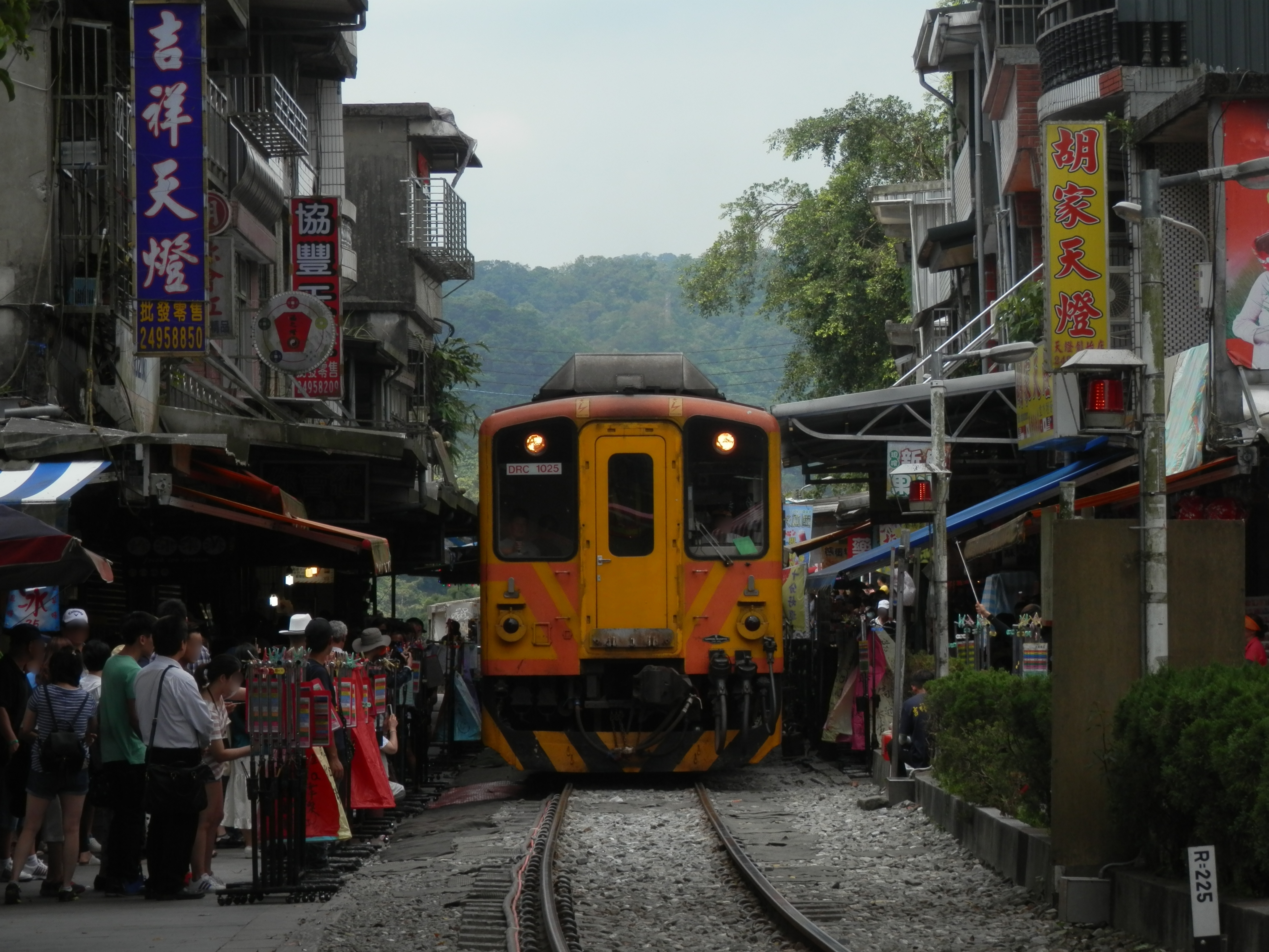 TRA Diesel Railcar type DR1000 at Pingxi Line between Shifen Station and Dahua Station